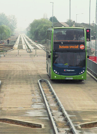 A view along the Cambridgeshire Guided Busway, at the junction near Cambridge Regional College. On this day with the busway still yet to be completed, special demonstrator journeys were operated for members of the public (chosen by ballot). Operated from Milton Park & Ride, the buses travelled the section of busway from the college to Park Lane, Histon. Stagecoach in Huntingdonshire bus 15459 (reg. AE09 GYG) is about to enter the busway, allowing its guidewheels to be seen.